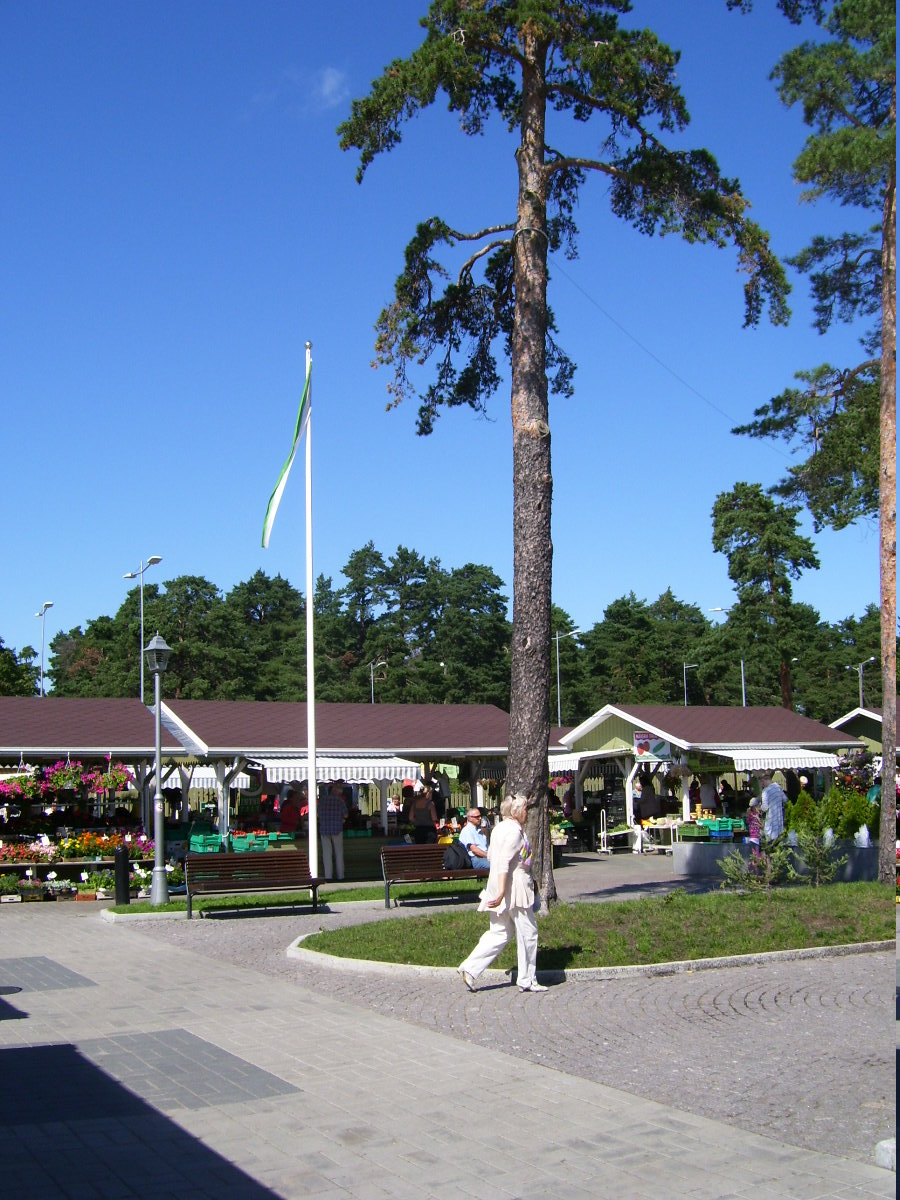 The market of Nõmme (after renovation)